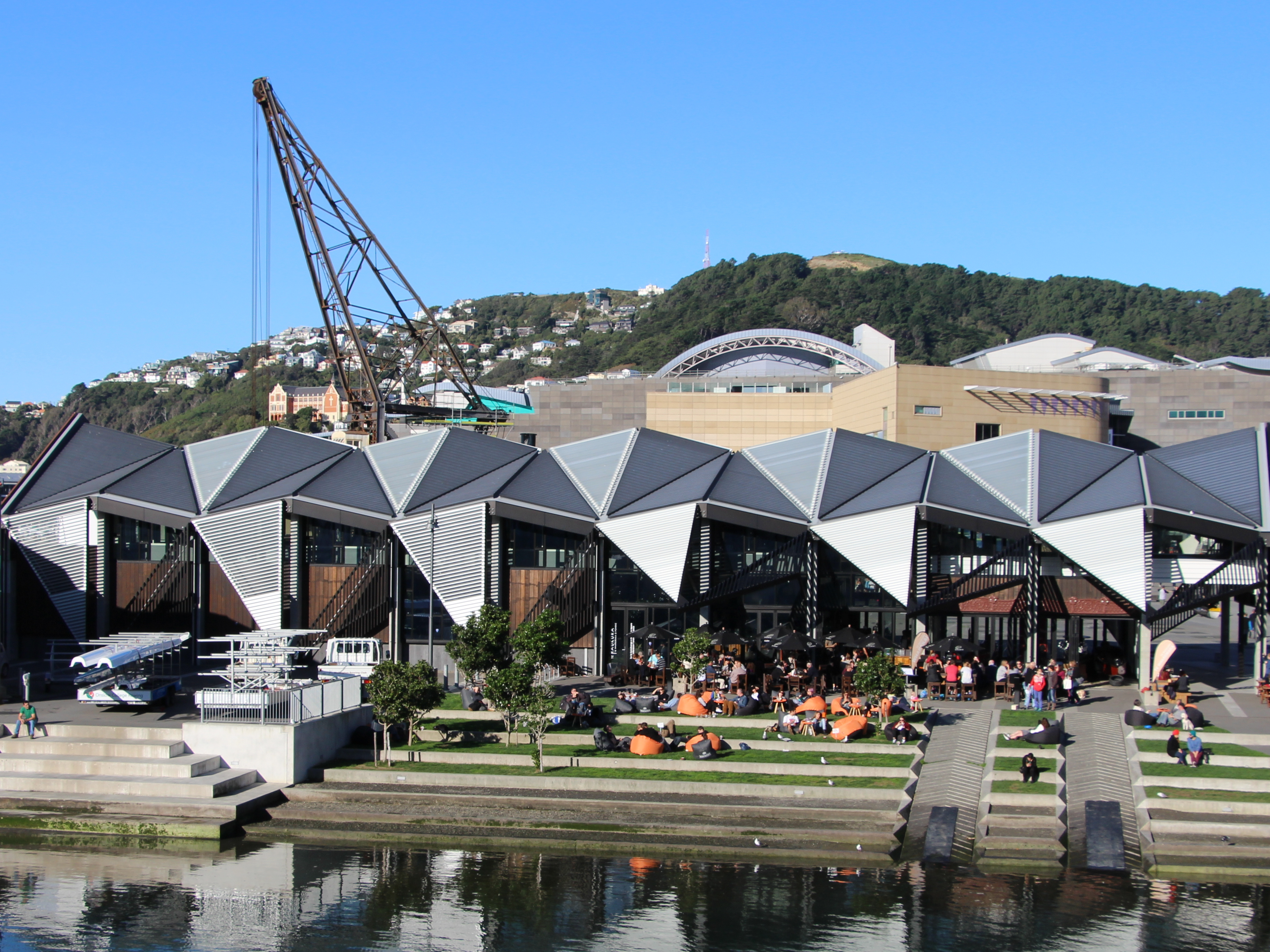 Te Raukura in Wellington, New Zealand